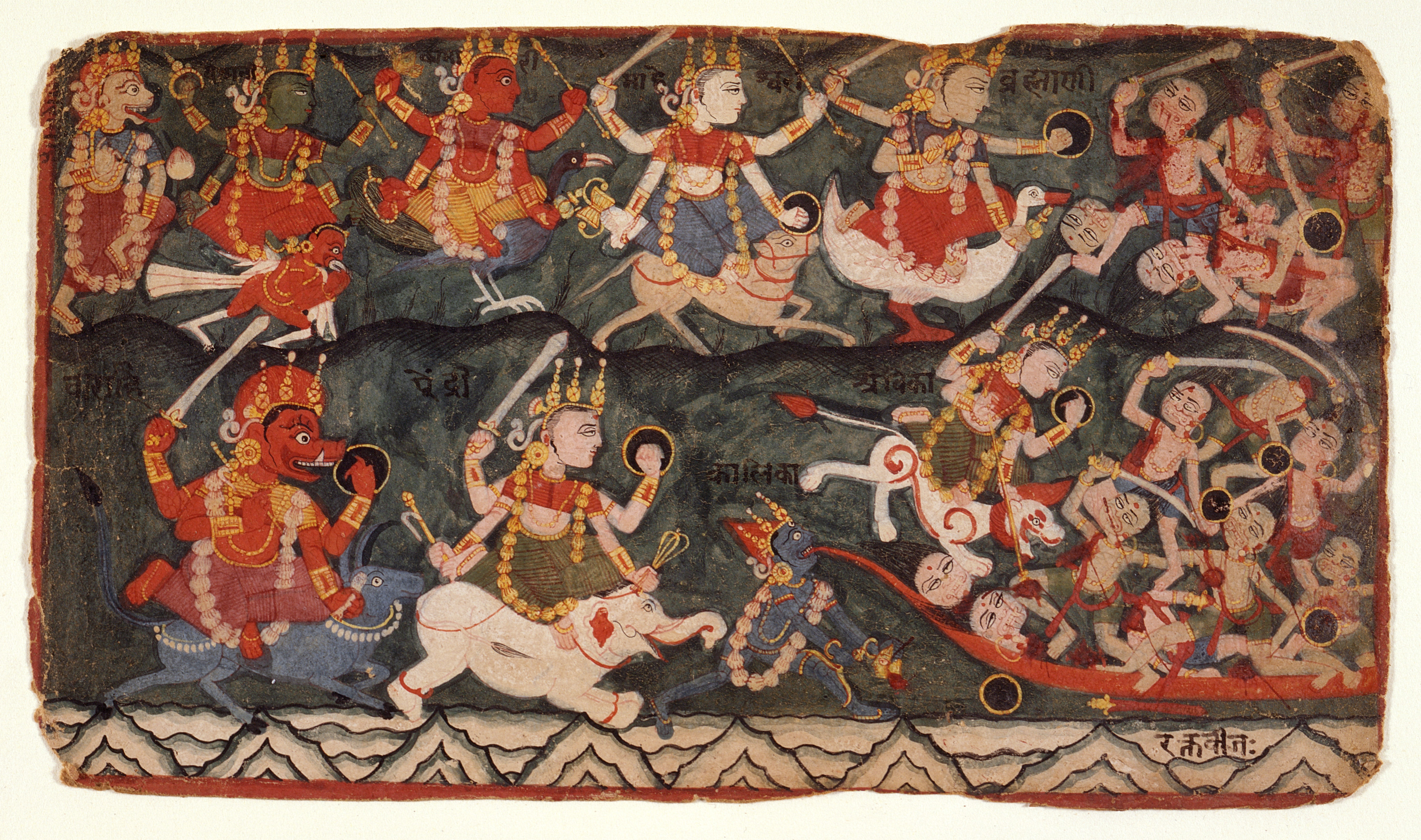 The Goddess Ambika Leading the Eight Mother Goddesses in Battle Against the Demon Raktabija, Folio from a Devimahatmya (Glory of the Goddess), early 18th century